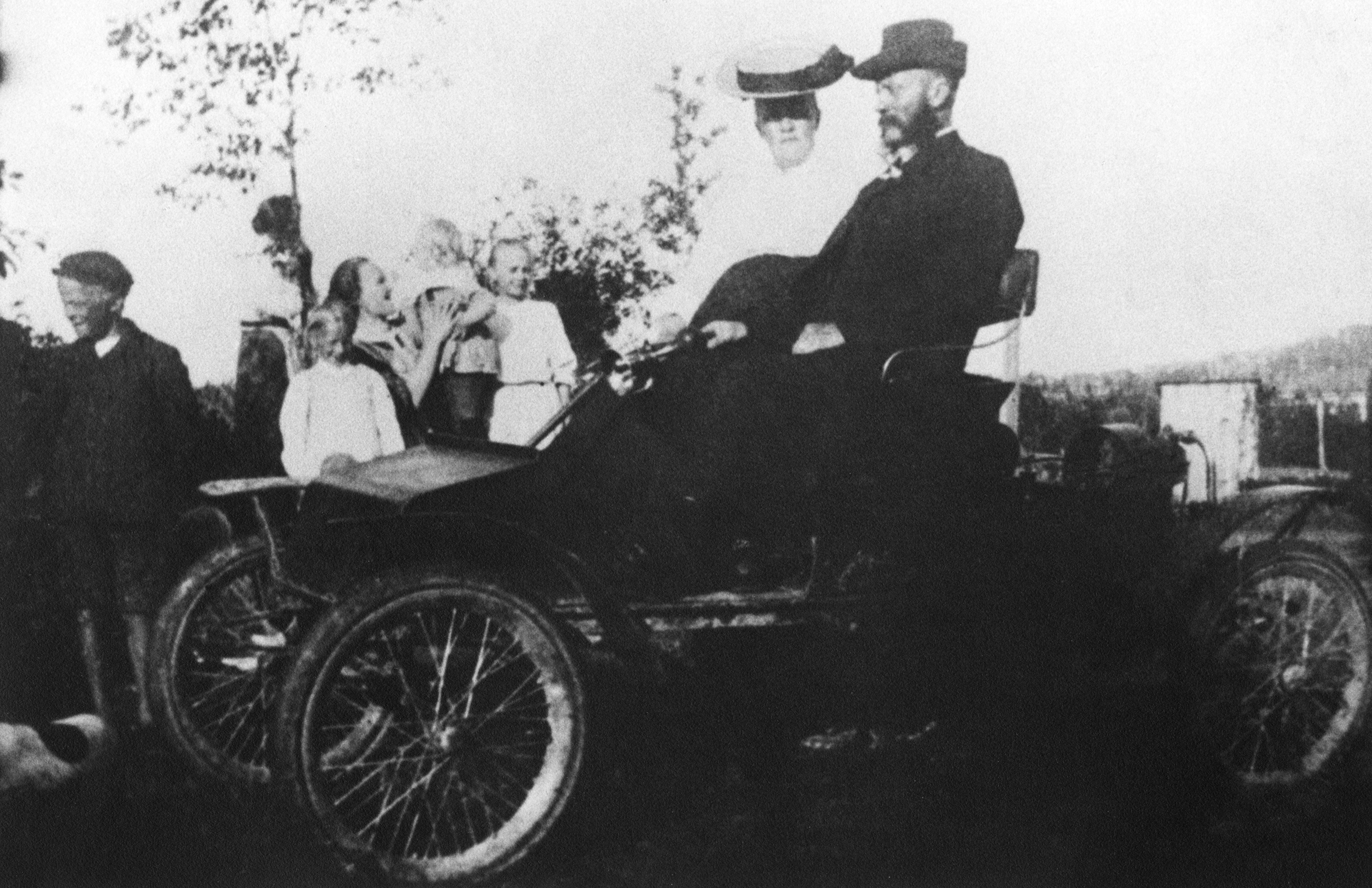 Orient buckboard, Tamperes first automobile ~ 1906–1907.